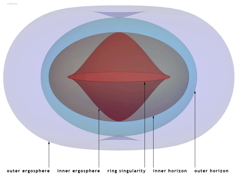 Event horizons and ergospheres of a rotating black hole (spin parameter a=Jc/G/M²=0.99); the ring-singularity is located at the equatorial kink of the inner ergosphere at R=a.